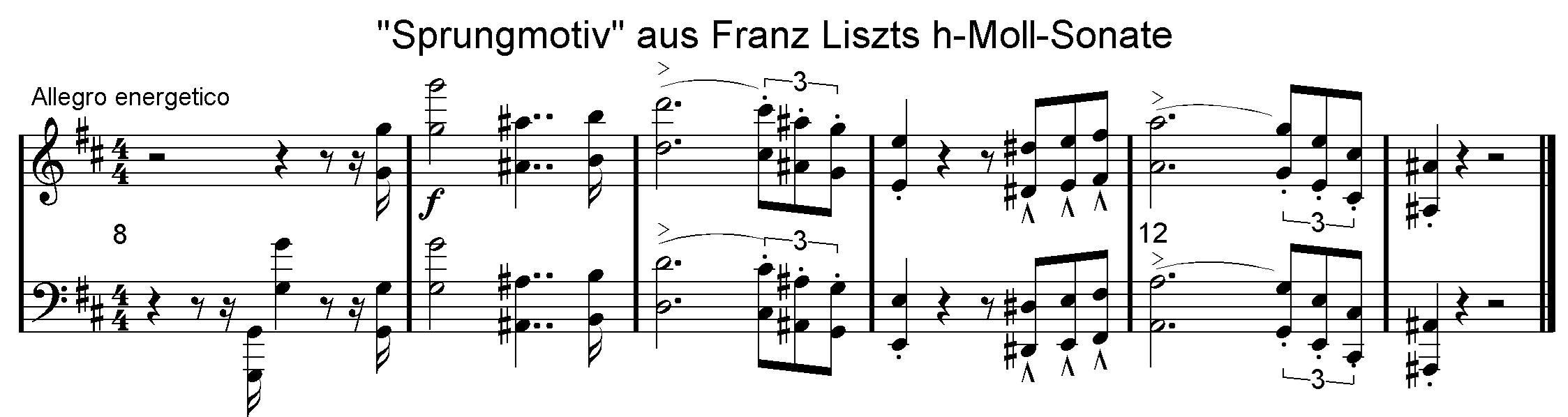 motive from Franz Liszt's b-minor-sonata